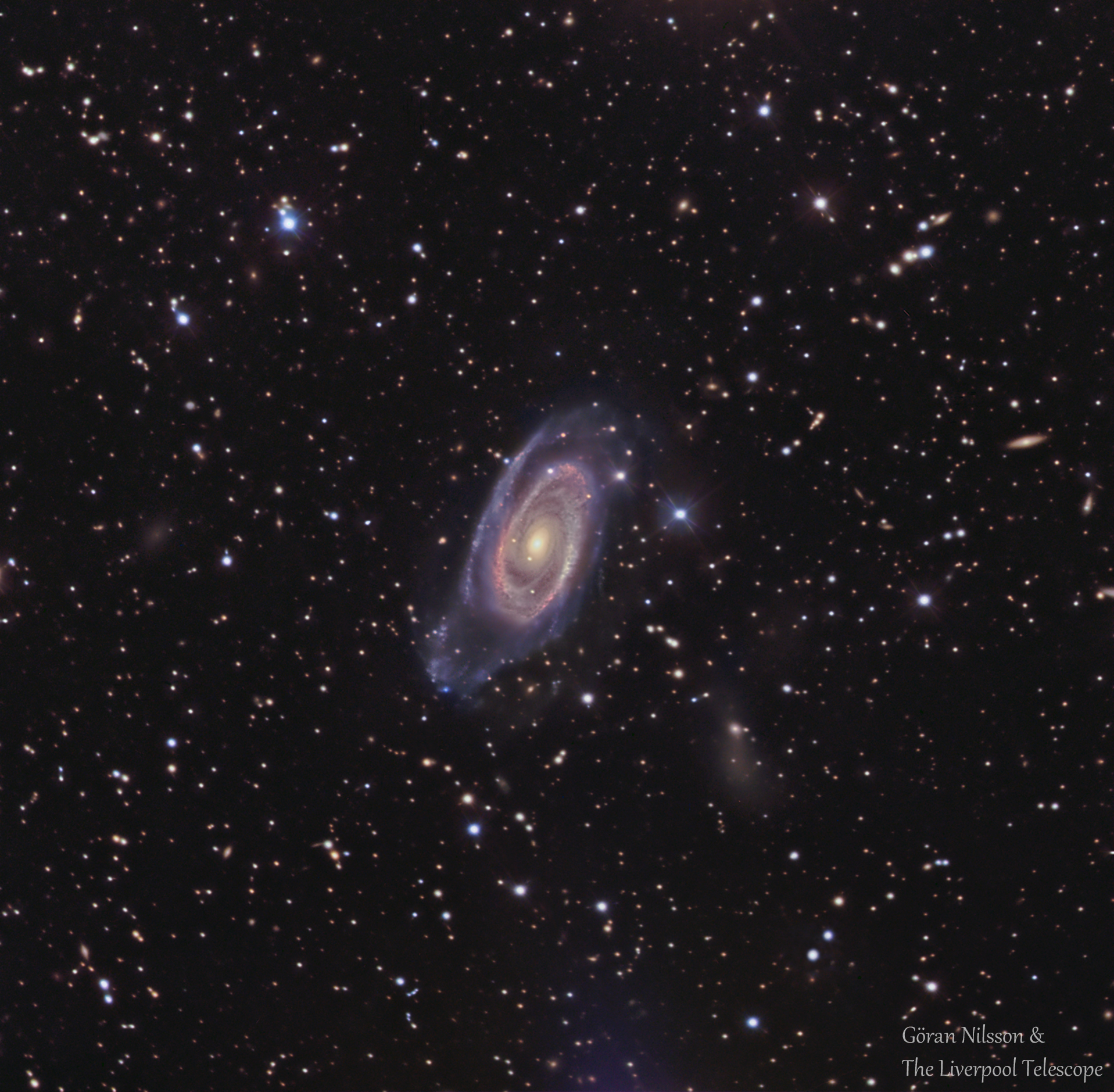 RGB image of galaxy NGC 6632. Data from the Liverpool Telescope, a 2 m RC telescope on La Palma, processed by Göran Nilsson. Exposure: 79 x 90 s = 2 hours